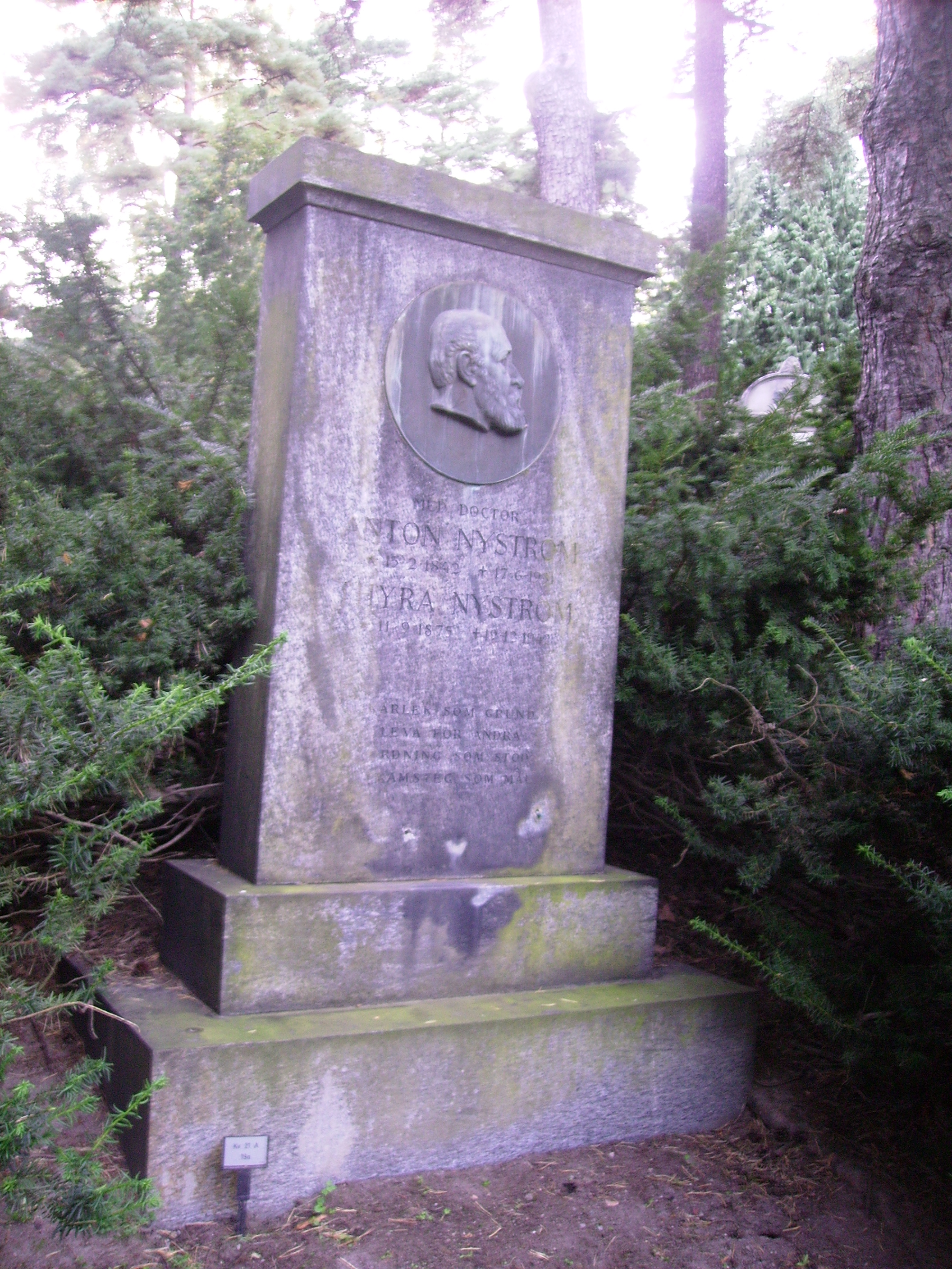 Picture of Anton Nyström's grave at Norra begravningsplatsen in Stockholm